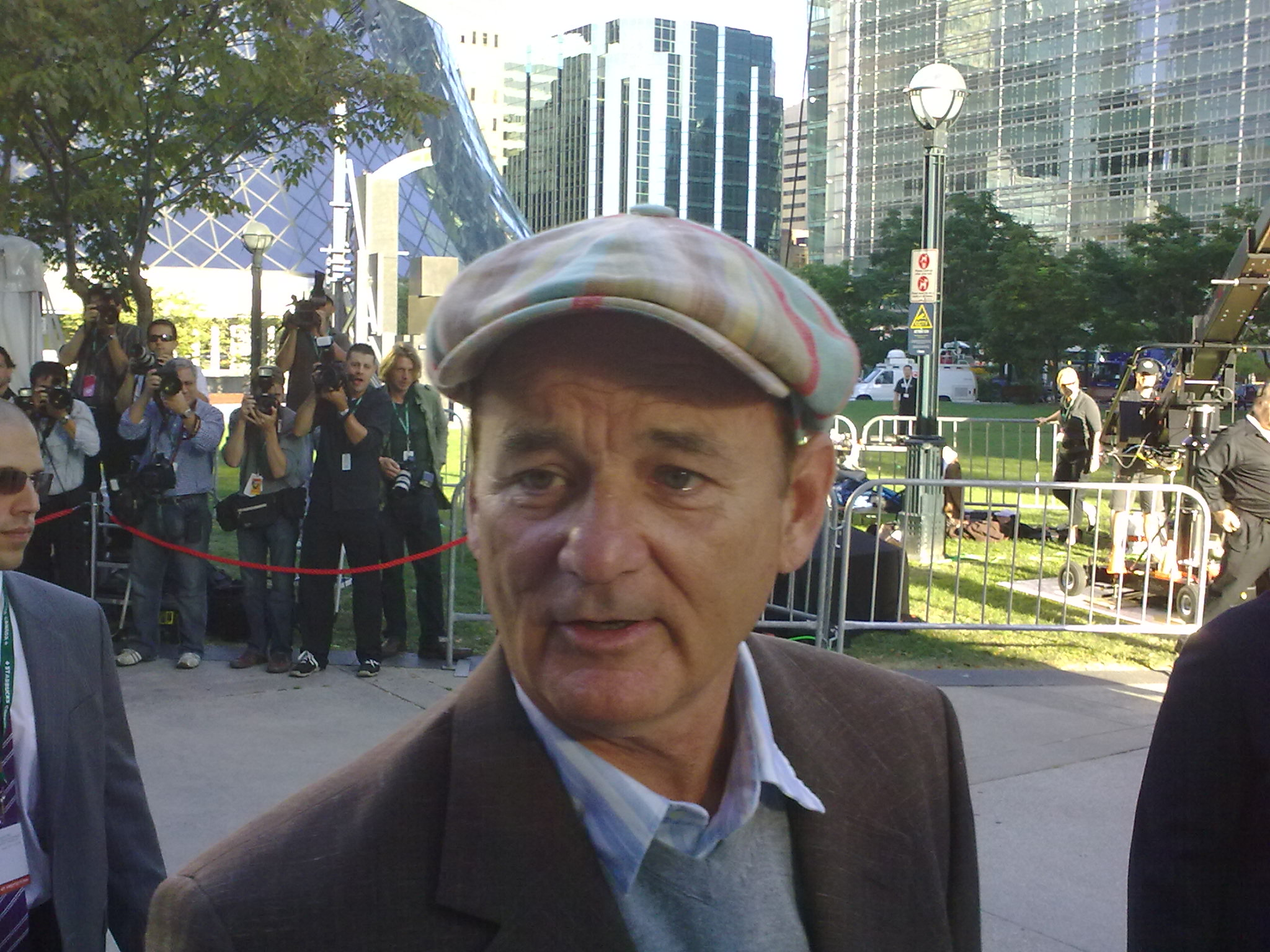 Bill Murray attending the premiere of Get Low